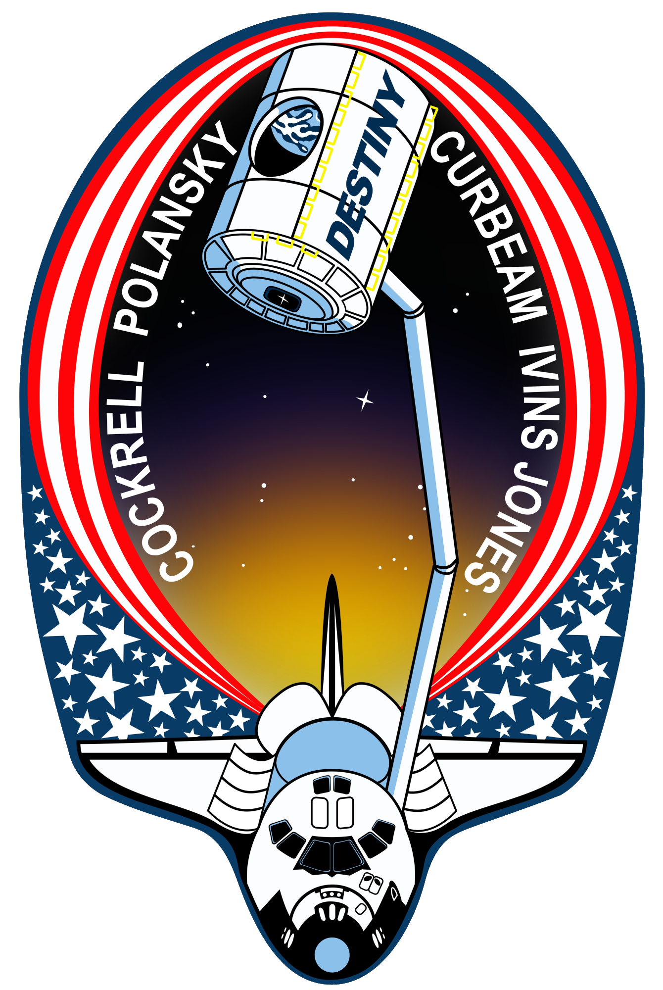 This is the insignia for STS-98, which marks a major milestone in assembly of the International Space Station (ISS). Atlantis' crew will deliver the United States Laboratory, Destiny, to the ISS. Destiny will be the centerpiece of the ISS, a weightless laboratory where expedition crews will perform unprecedented research in the life sciences, materials sciences, Earth sciences, and microgravity sciences. The laboratory is also the nerve center of the Station, performing guidance, control, power distribution, and life support functions. With Destiny's arrival, the Station will begin to fulfill its promise of returning the benefits of space research to Earth's citizens. The crew patch depicts the Space Shuttle with Destiny held high above the payload bay just before its attachment to the ISS. Red and white stripes, with a deep blue field of white stars, border the Shuttle and Destiny to symbolize the continuing contribution of the United States to the ISS. The constellation Hercules, seen just below Destiny, captures the Shuttle and Station's team efforts in bringing the promise of orbital scientific research to life. The reflection of Earth in Destiny's window emphasizes the connection between space exploration and life on Earth.